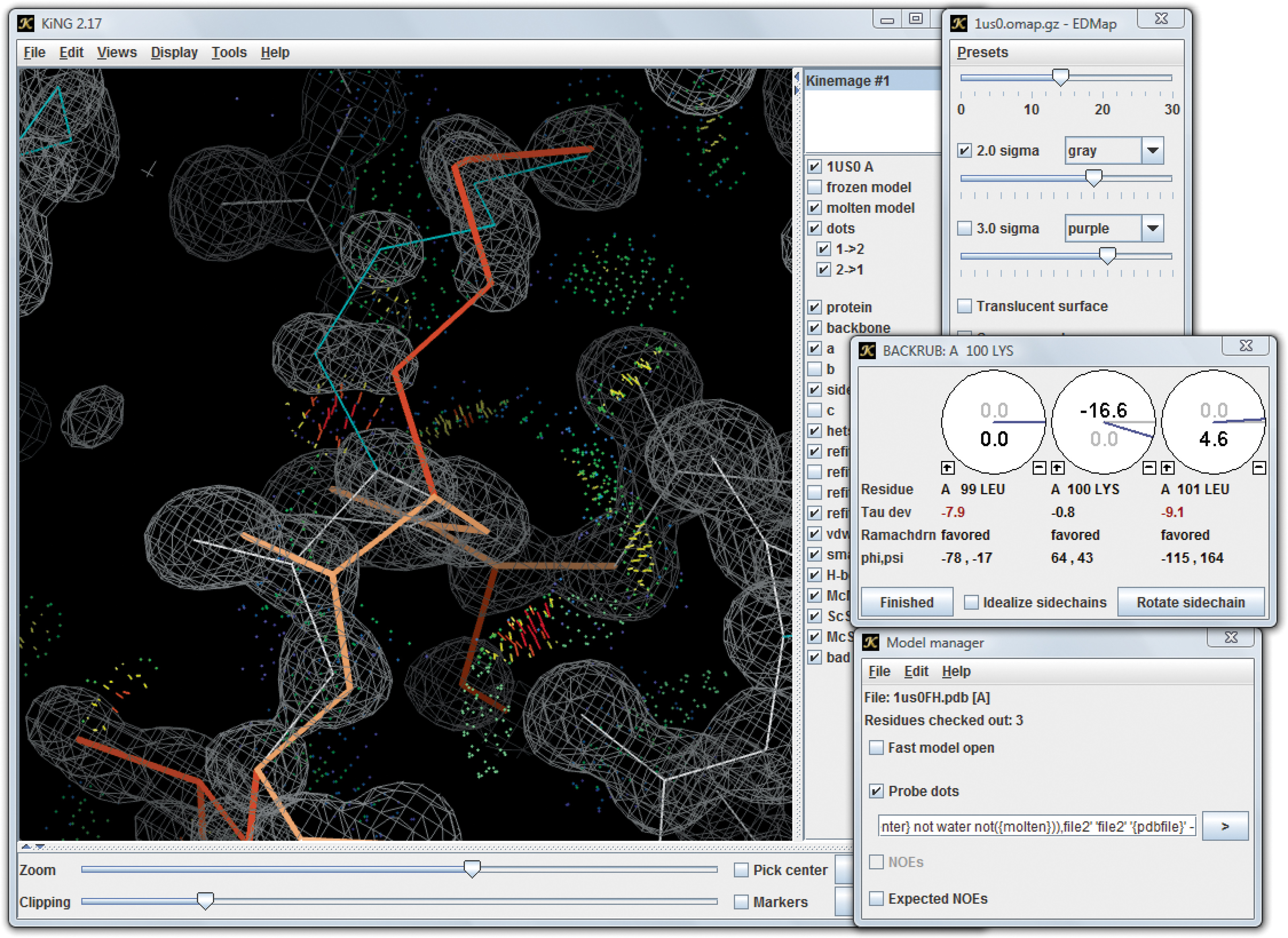 "Backrub" fit of protein alternateConformers into crystallographic electron density, screen capture of interactive work in the KiNG kinemage graphics program (Ian Davis, Vincent Chen).